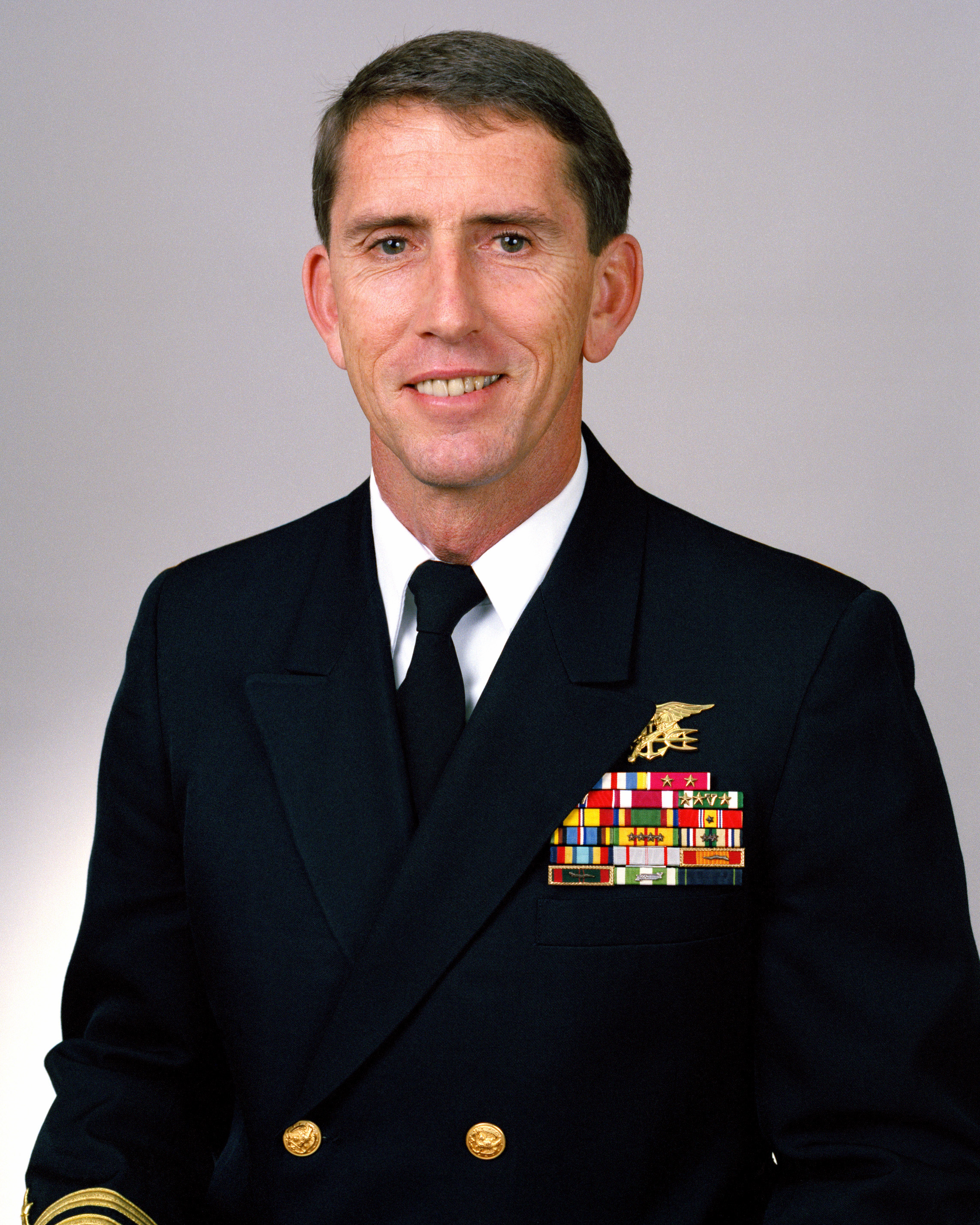 Rear Admiral Raymond C. Smith, Jr., USN, acting commander U.S. Special Operations Command (1997)